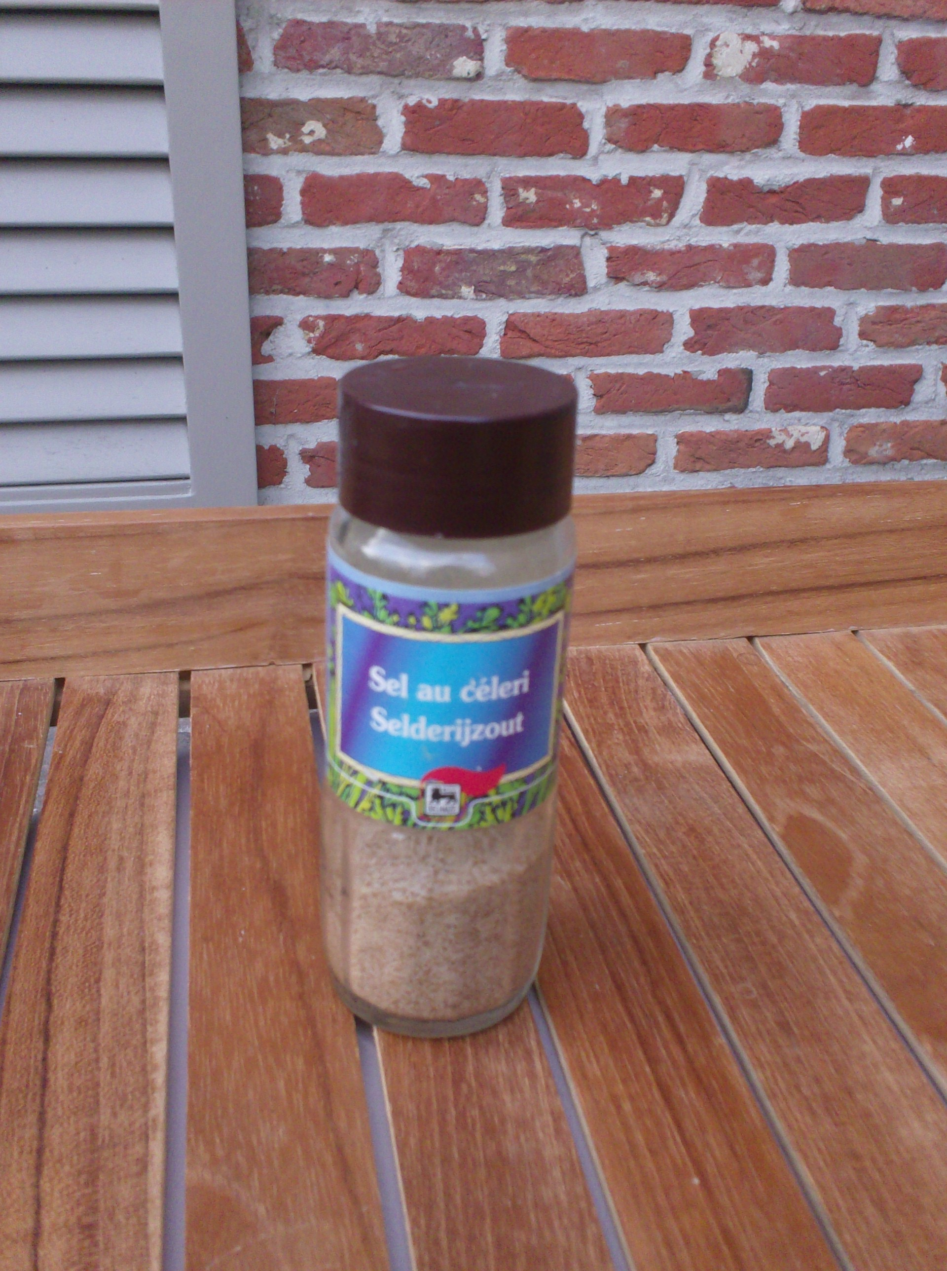 Celery salt